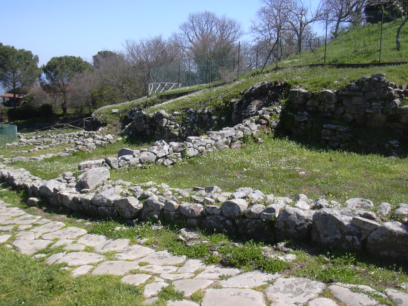 Etruscan City, atrium houses, Vetulonia/Tuscany, Italy